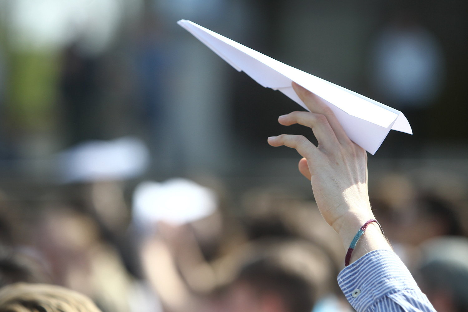 Rally in Telegram support in Kaliningrad (2018-04-30)